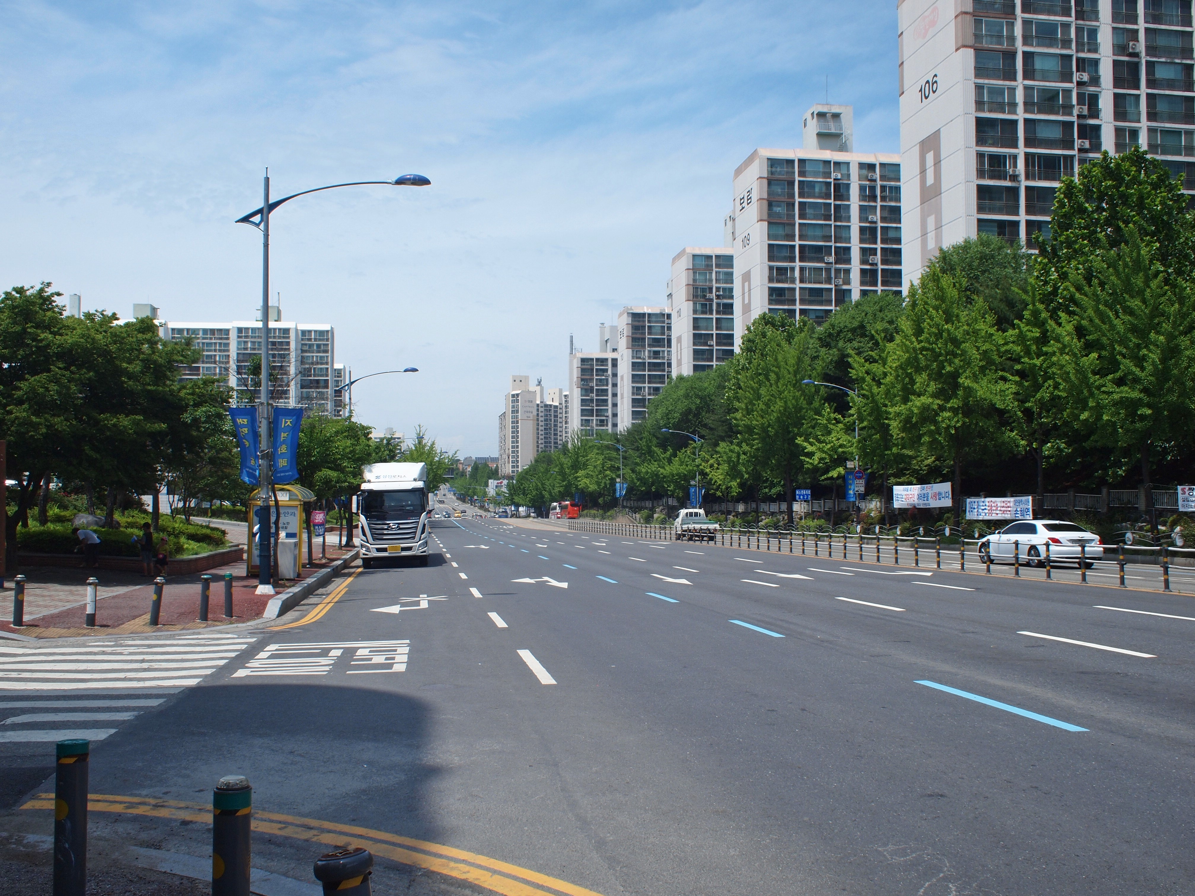 Gyejok-ro